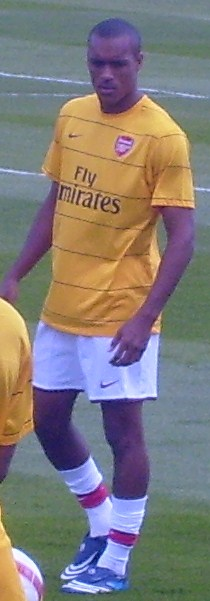 Jay Simpson warming up for a pre-season friendly at Barnet.